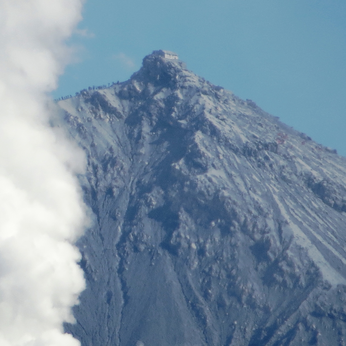 Kengamine, peak of Mount Ontake, seen from Mount Shirakusa, in Japan.